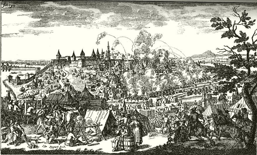 Siege of Belgrade, 1688 by Adlerschwung